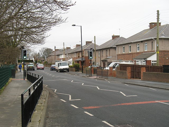 Main road, Dinnington Residential street.